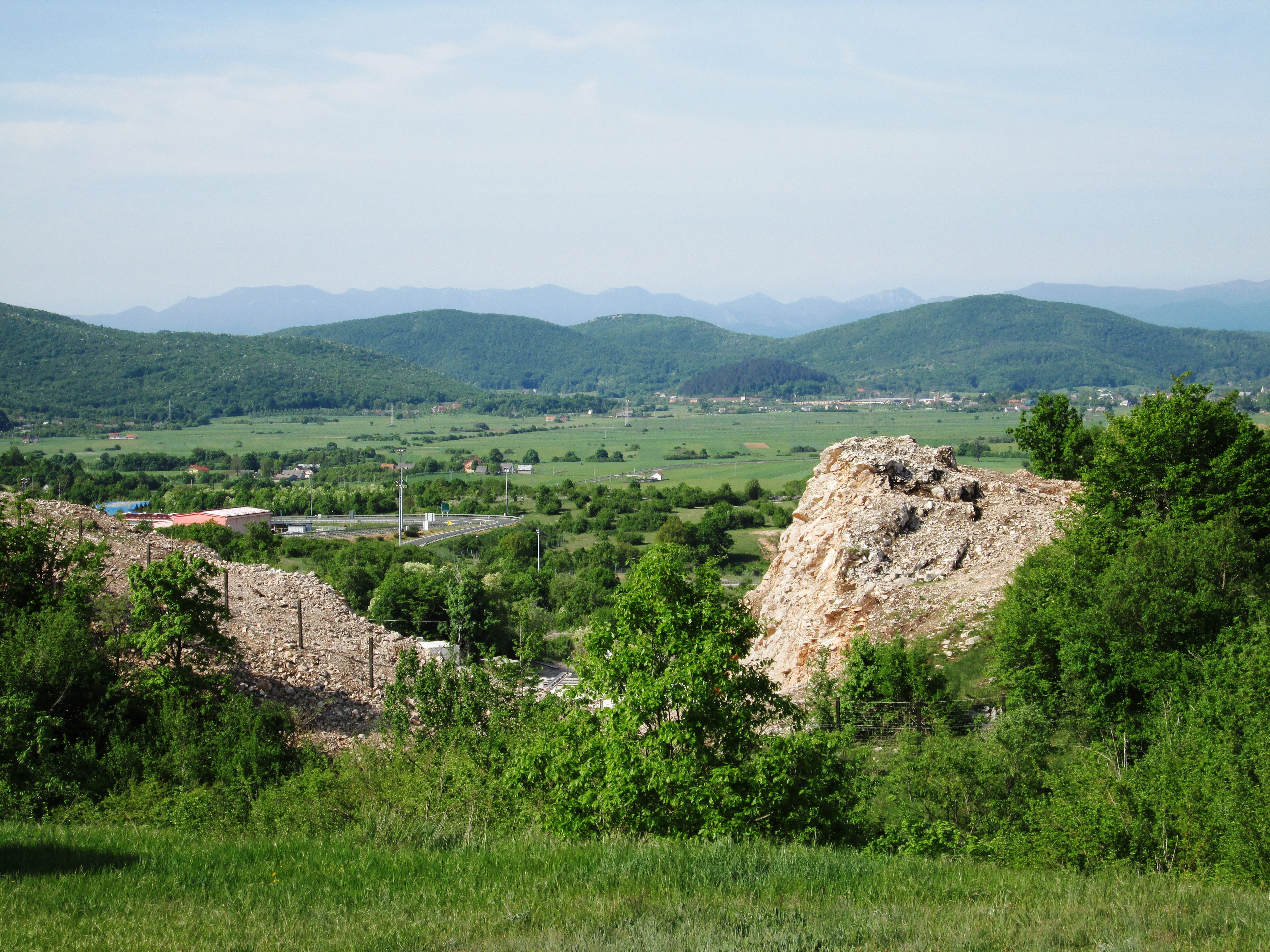 View on Perusic, Croatia